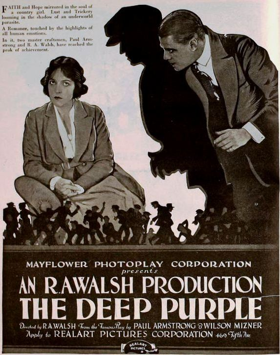 Ad for the American film The Deep Purple (1920) with Miriam Cooper and Vincent Serrano, on page 3924 of the May 8, 1920 Motion Picture News.